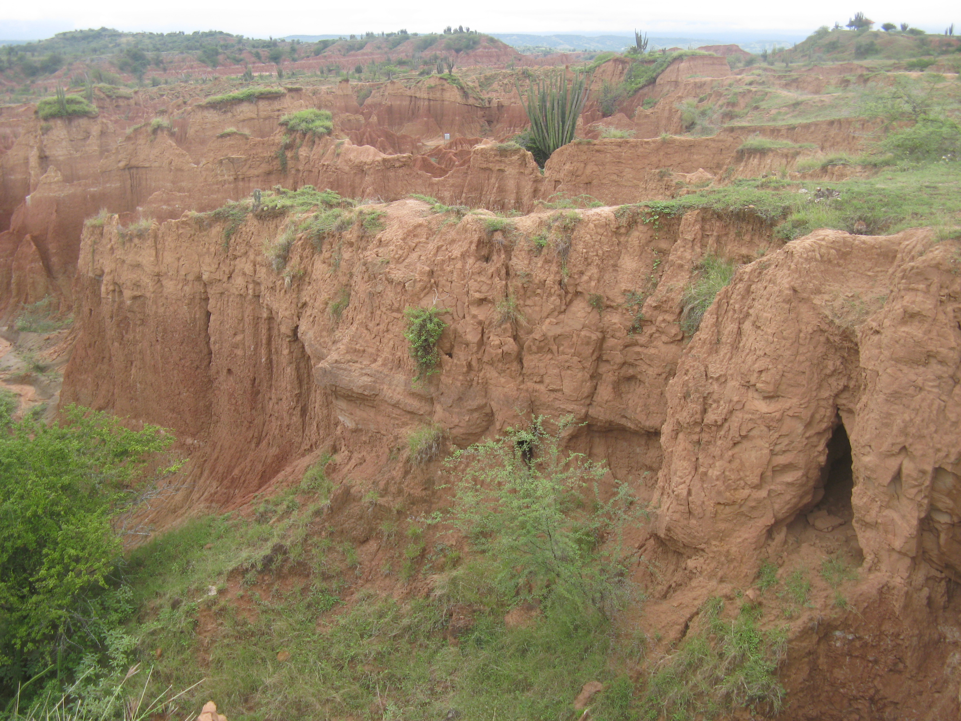 Looking into the red part of the Tatacoa Desert